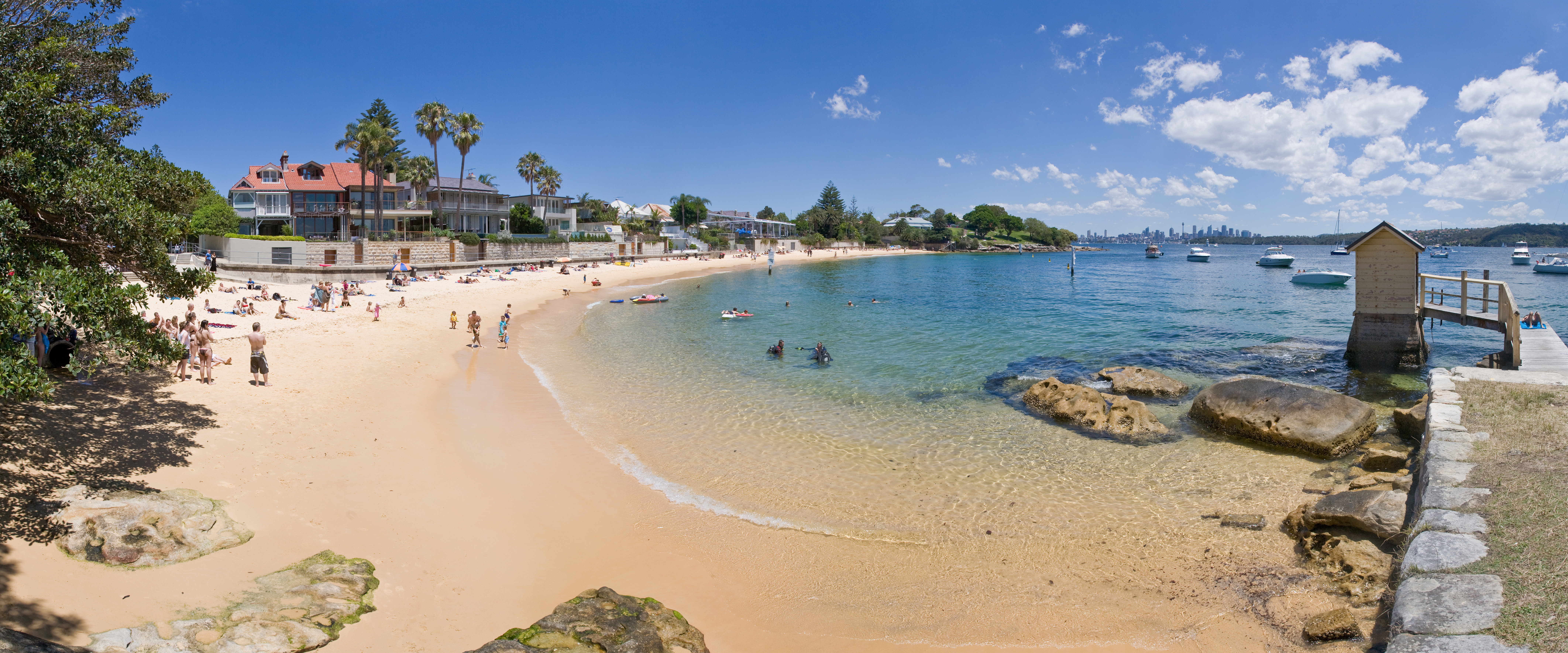 A panoramic view of Camp Cove beach in Watson's Bay, Sydney, Australia. Taken by myself with a Canon 5D and 24-105mm f/4L IS lens.